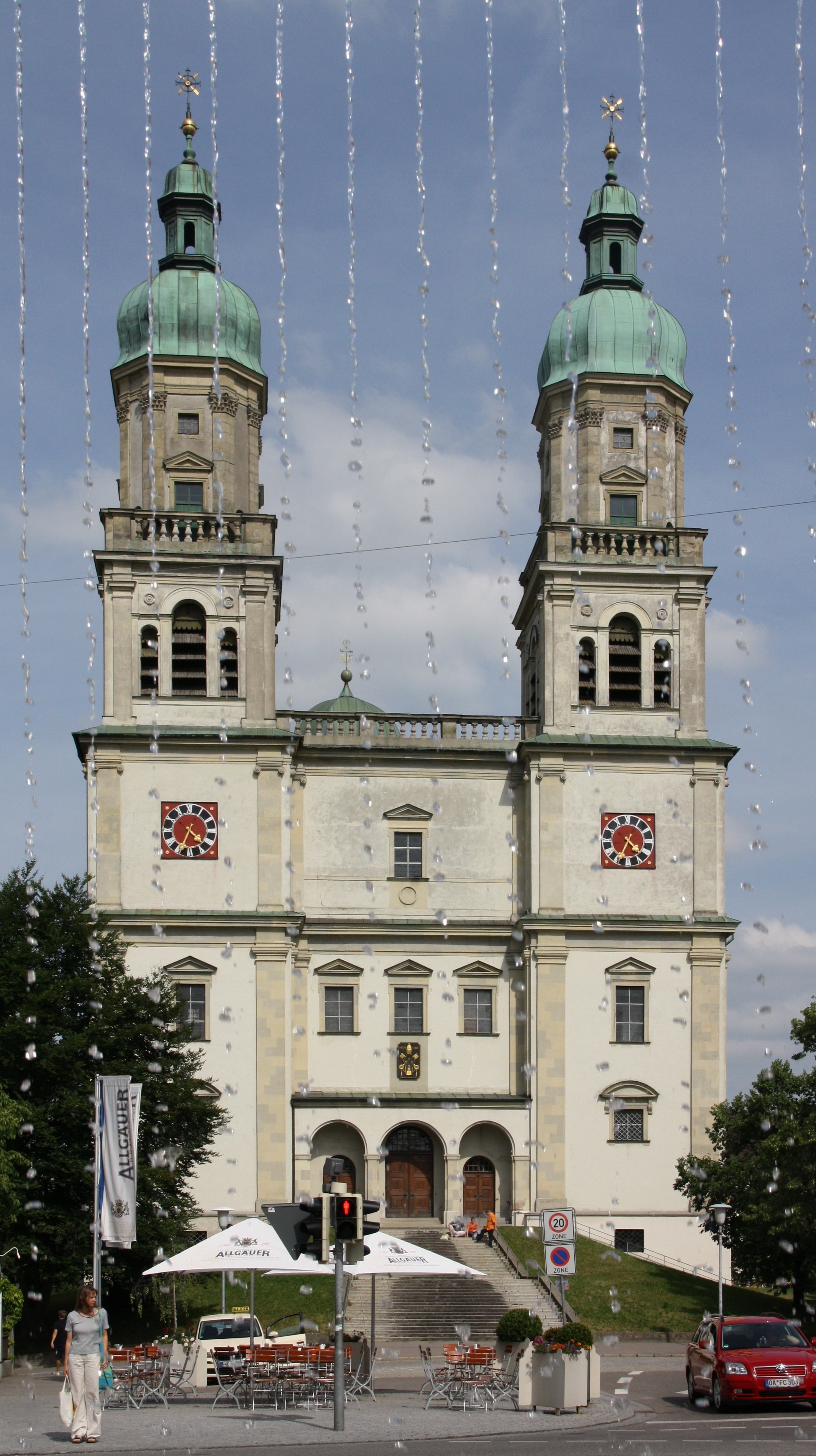 St. Lorenz Basilica with rain-effect (a well)